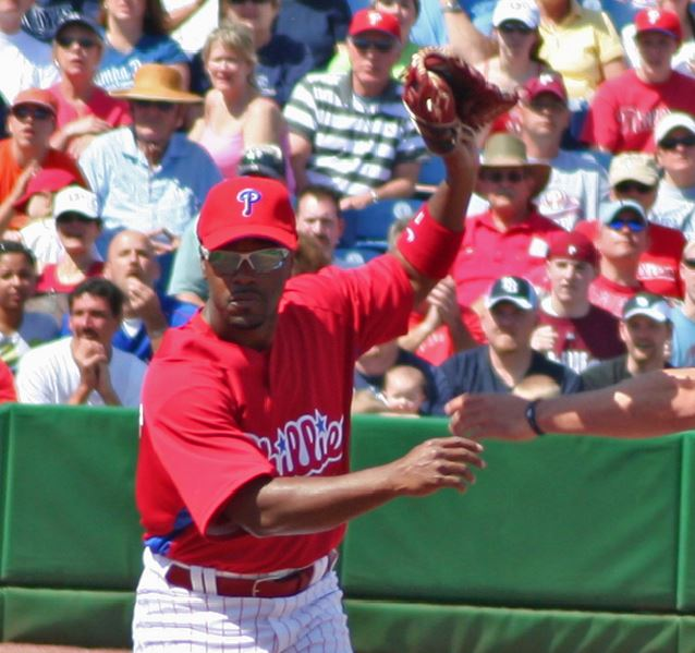 Jimmy Rollins right after a throw to first base during Spring Training 2009